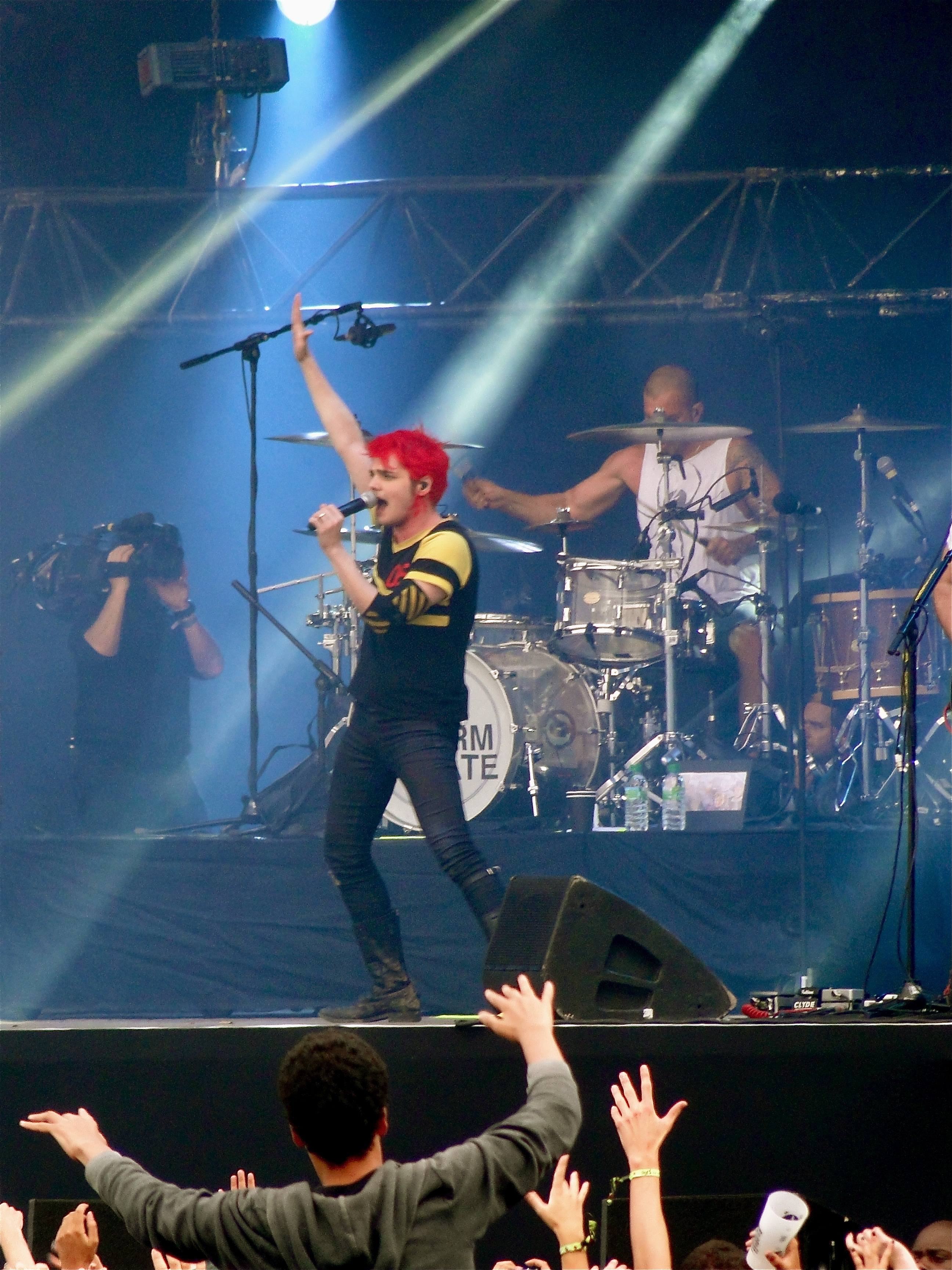 My Chemical Romance at Rock en Seine, Paris, 2011